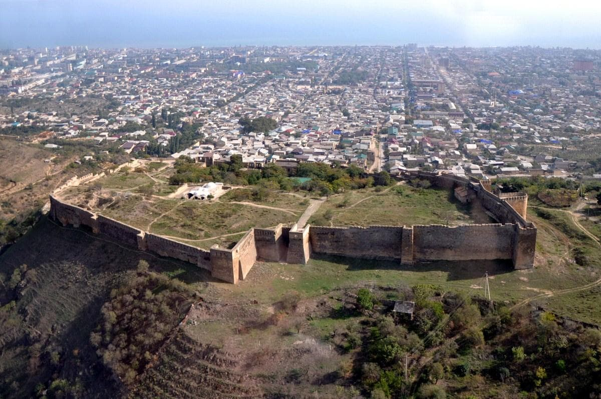 Ancient city of Azerbaijan - Derbent occupies the narrow gateway between the Caspian Sea and the Caucasus Mountains connecting the Eurasian steppes to the north and the Iranian Plateau to the south.